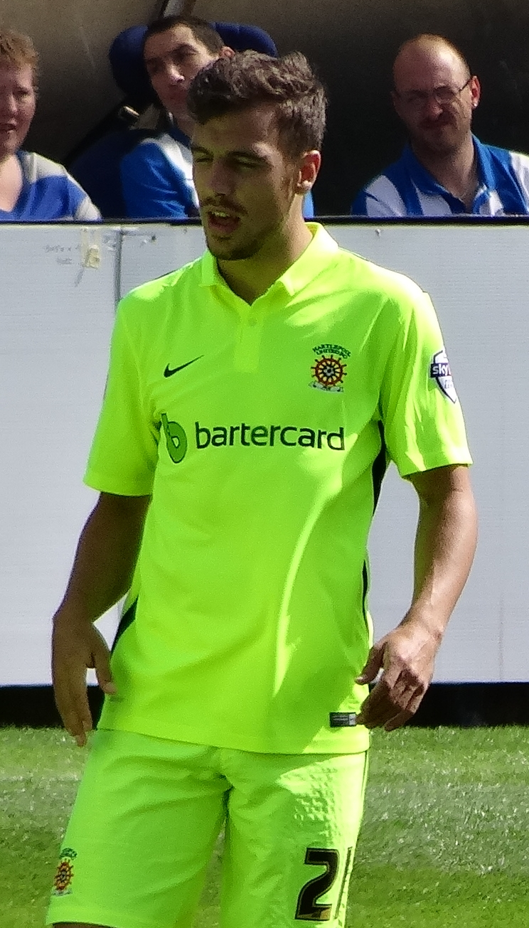 Michael Duckworth playing for Hartlepool United against York City at Bootham Crescent, York on 15 August 2015